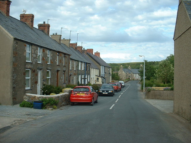 Rhyd-y-clafdy village. Looking east.